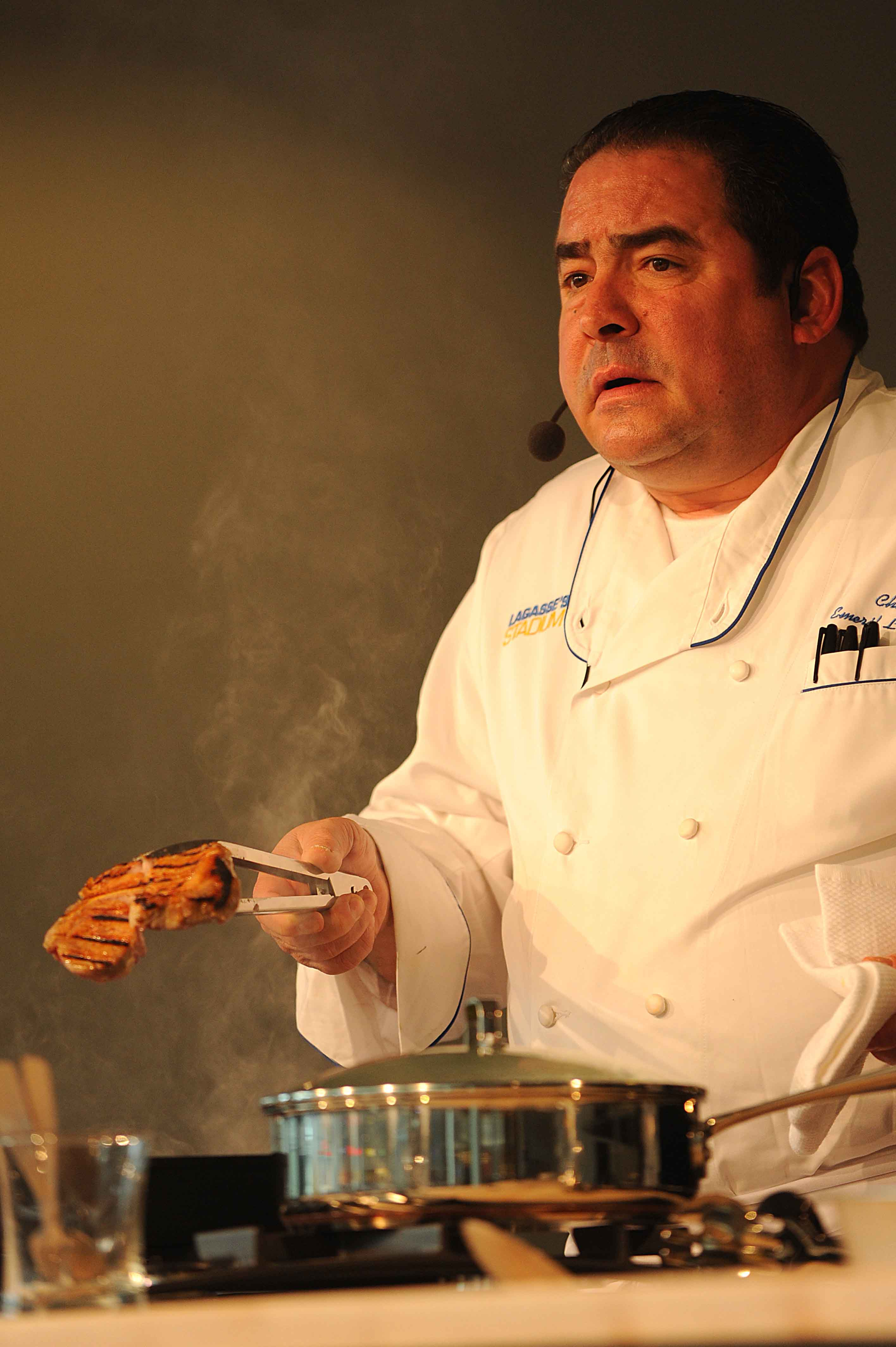 Emeril Lagasse, American celebrity chef, restaurateur, television personality, and writer. Celebrity Chef Emeril Lagasse shows the crowd how to properly cook pork chops during a live cooking demonstration at the Kaiserslautern Military Community Center, Ramstein Air Base, Germany, May 29, 2010. Celebrity Chef Emeril Lagasse visited military family members at the KMCC by signing copies of his new book and performing an hour long cooking demonstration for over a thousand visitors. (U.S. Air Force photo by Staff Sgt. Stephen J. Otero)